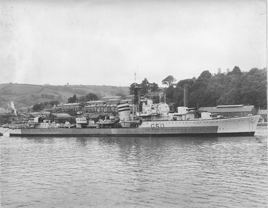 K-class Royal Navy Kimberley (G50) laid up in Dartmouth after WWII. The image is a scan of a commemorative photograph owned by a crewmember.